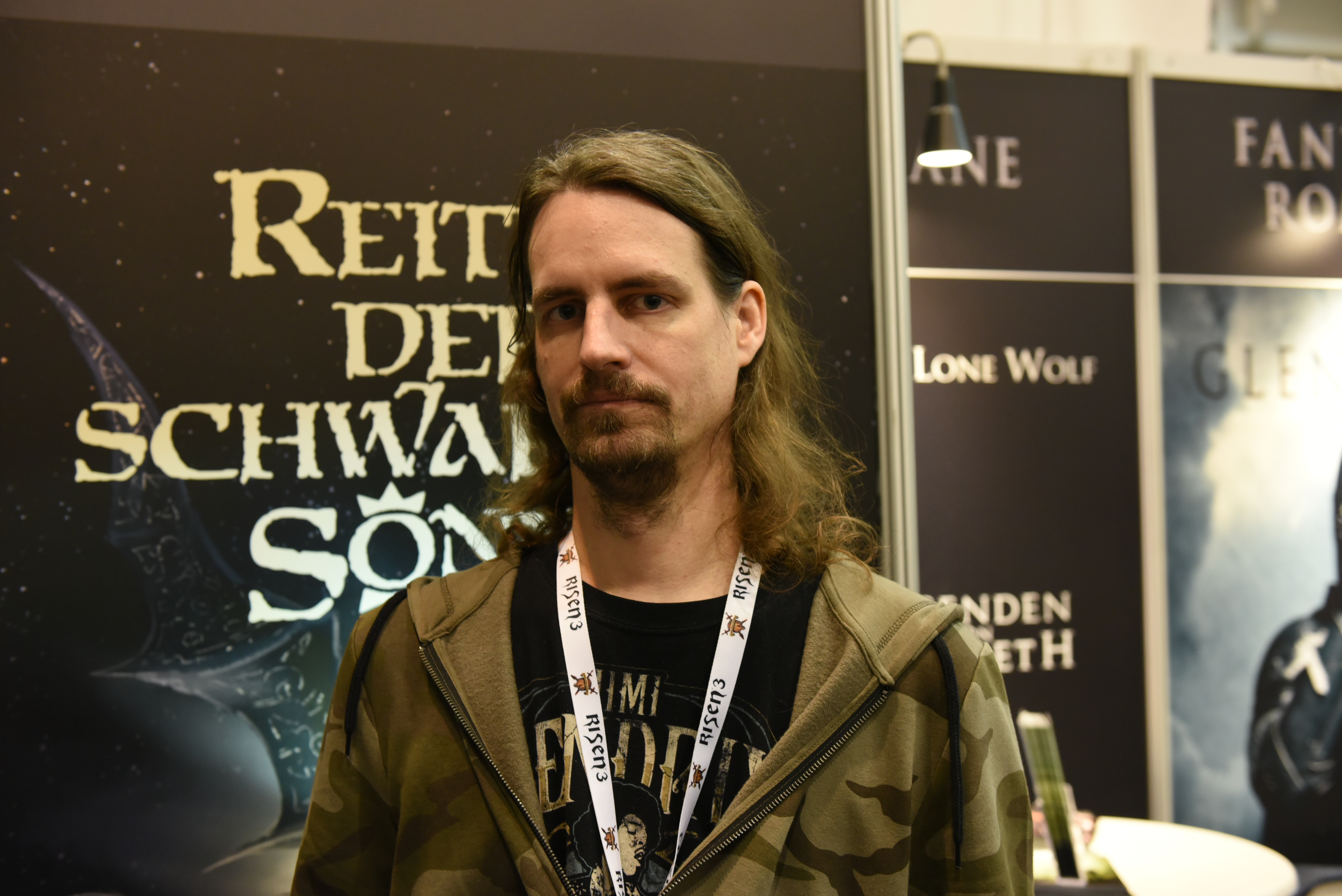 The author Swen Harder at the board game fair Spiel '17 in Essen, Germany.